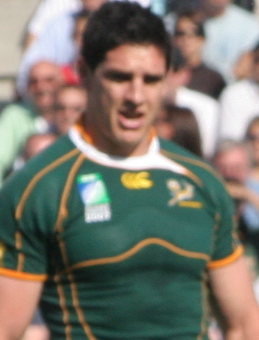 Match between South Africa and Fiji during 2007 Rugby World Cup in Marseille (France).